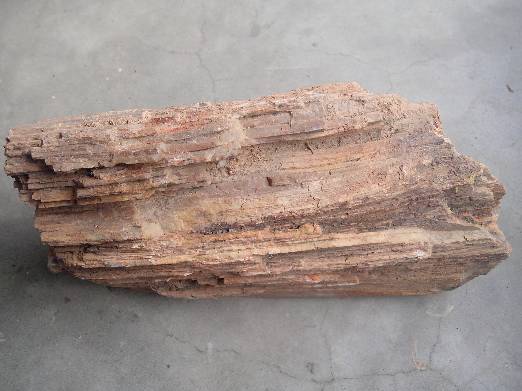 Fossil Wood, Tamilnadu, India.